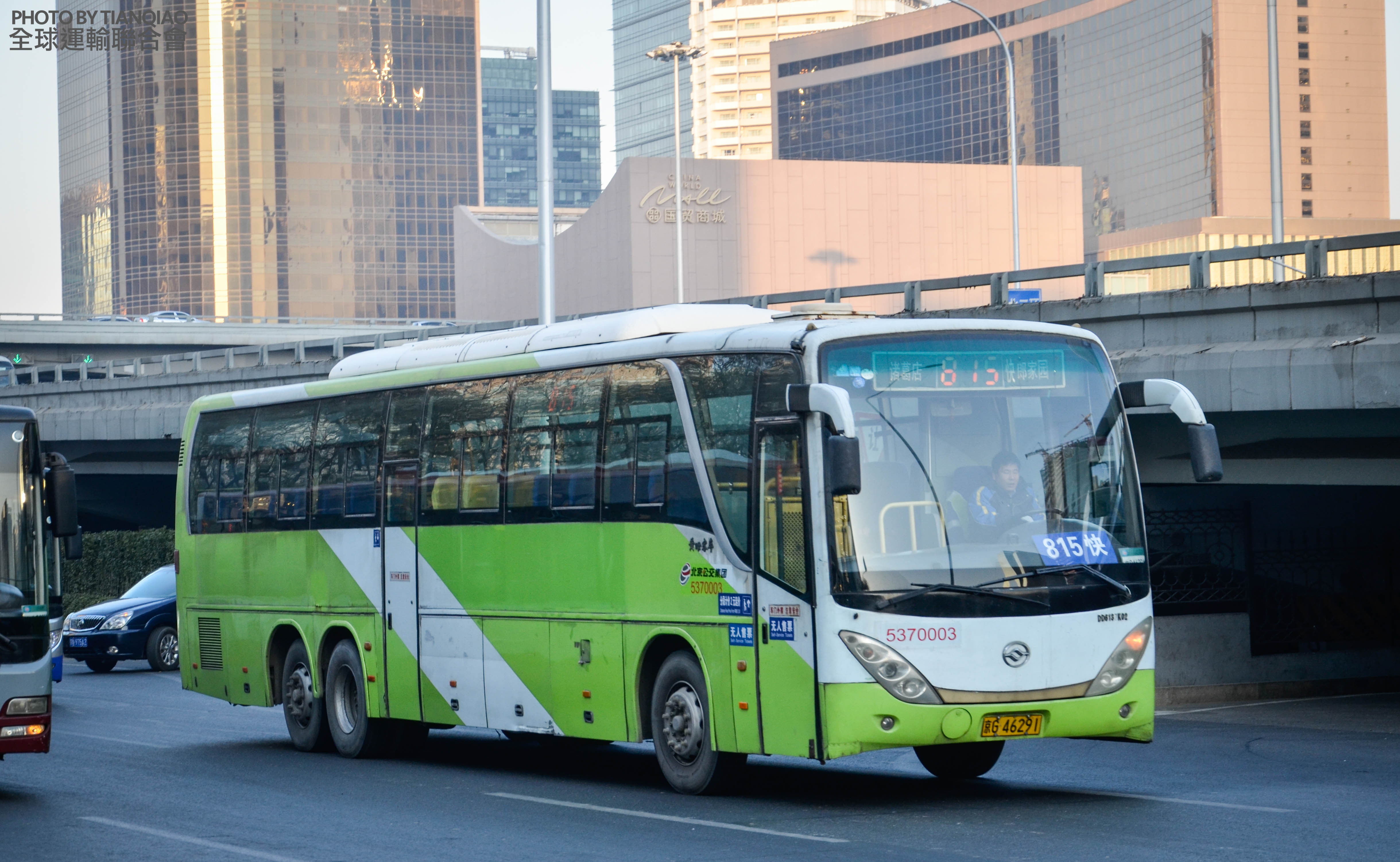 8xx and 9xx are mainly operated in suburb and rural areas, and some of them reaches some places outside Beijing.Such as 815,from Bawangfen(to the west of Guomao )to Zhugedian(In Yanjiao Hebei),line's length is over 36 kilometers, running through highways,and a quick line covers less stops.